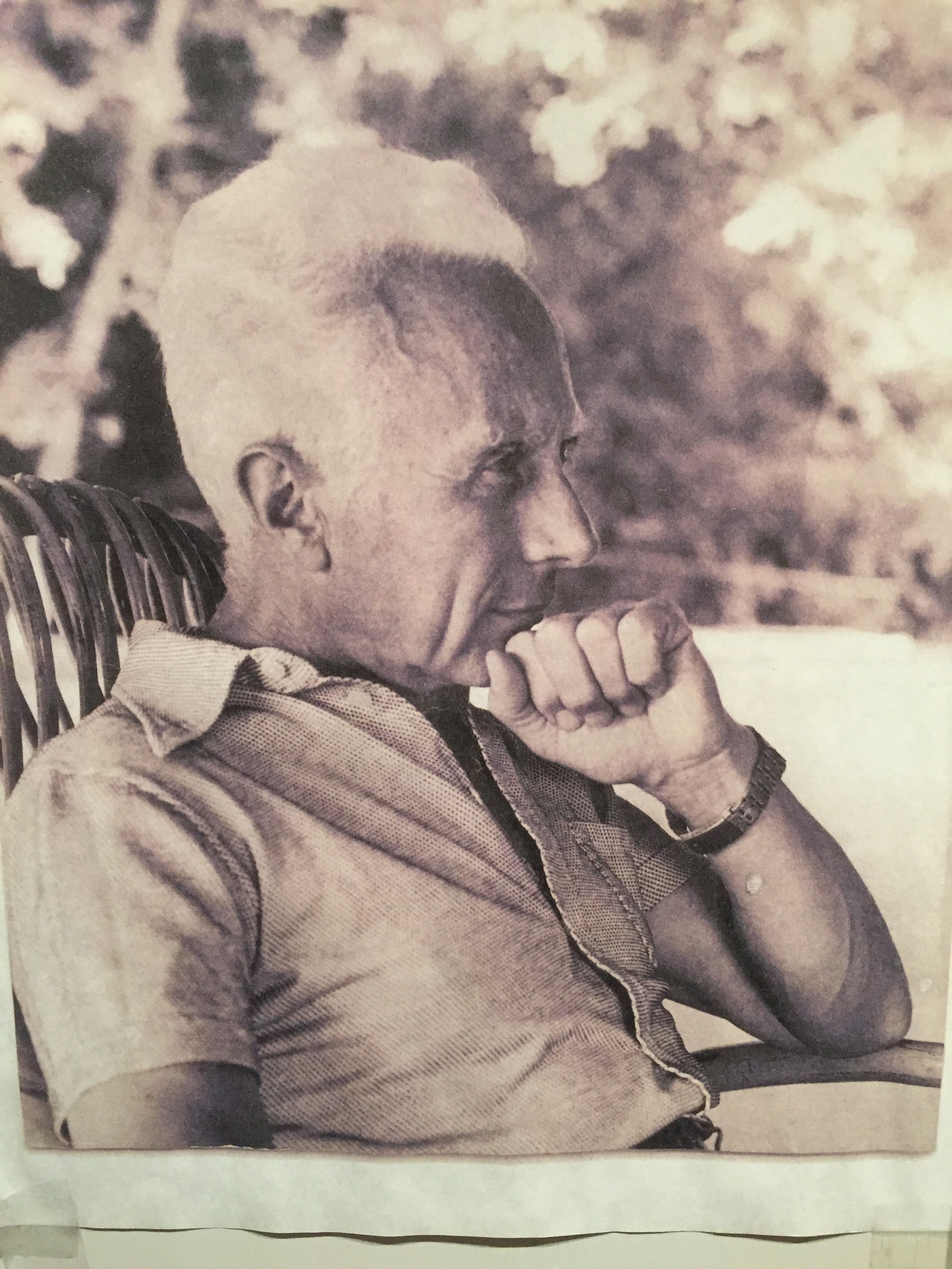 Portrait photo